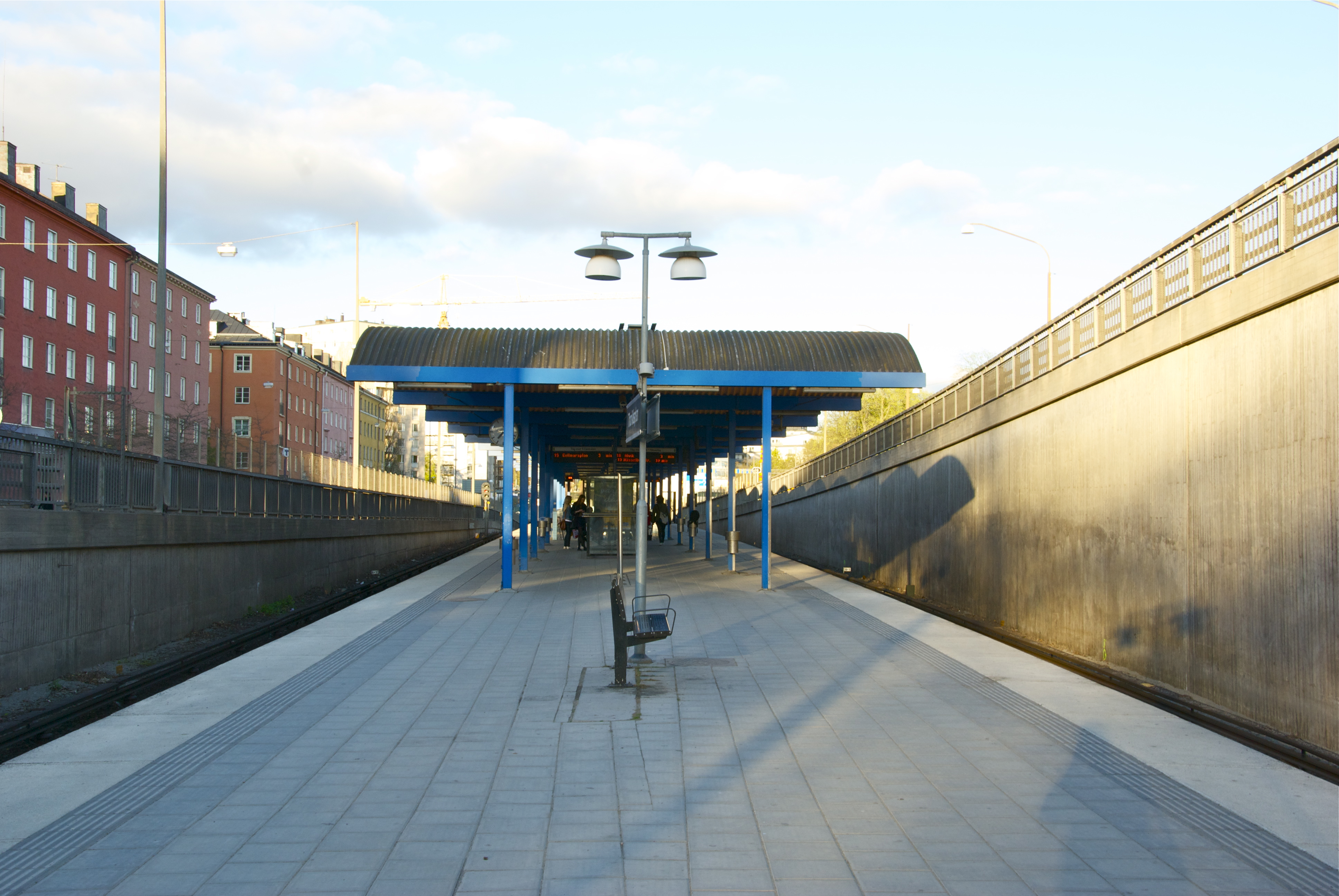 Thorildsplan Metro station